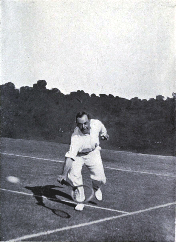 Harry Alabaster Parker (1873-1961), tennis player from New Zealand, Australasian doubles champion 1907